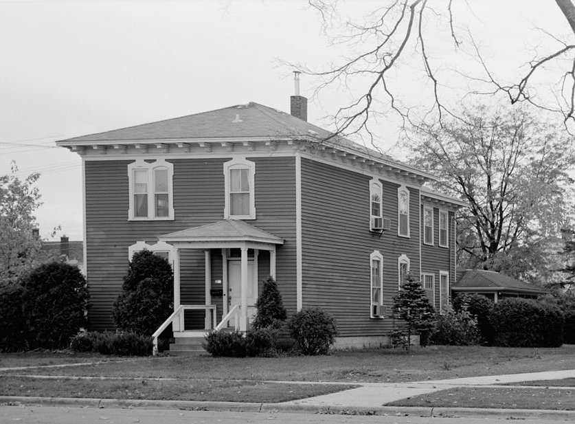 First Congregational Parsonage, 305 West Second Street, Wabasha, Wabasha County, MN. One of Wabasha’s finest examples of a frame Italianate style building. Its exterior integrity has survived throughout its service as the First Congregational Parsonage from 1872 to 1955, as a residence from 1955 to 1979, and as a chiropractic clinic from 1979 to 1986.